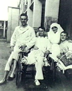 North Africa: Egypt, Cairo. 1917. Informal portrait of three Australian Flying Corps (AFC) Officers recuperating at the 14th Australian General Hospital. Left to right: Lieutenant (Lt) J V Tunbridge, 1 Squadron; Lt J A Egan, 2 Squadron; Sister Roberts and Captain Frank Hubert McNamara, 1 Squadron, who was awarded the Victoria Cross (VC) on 8 June 1917. D Foster